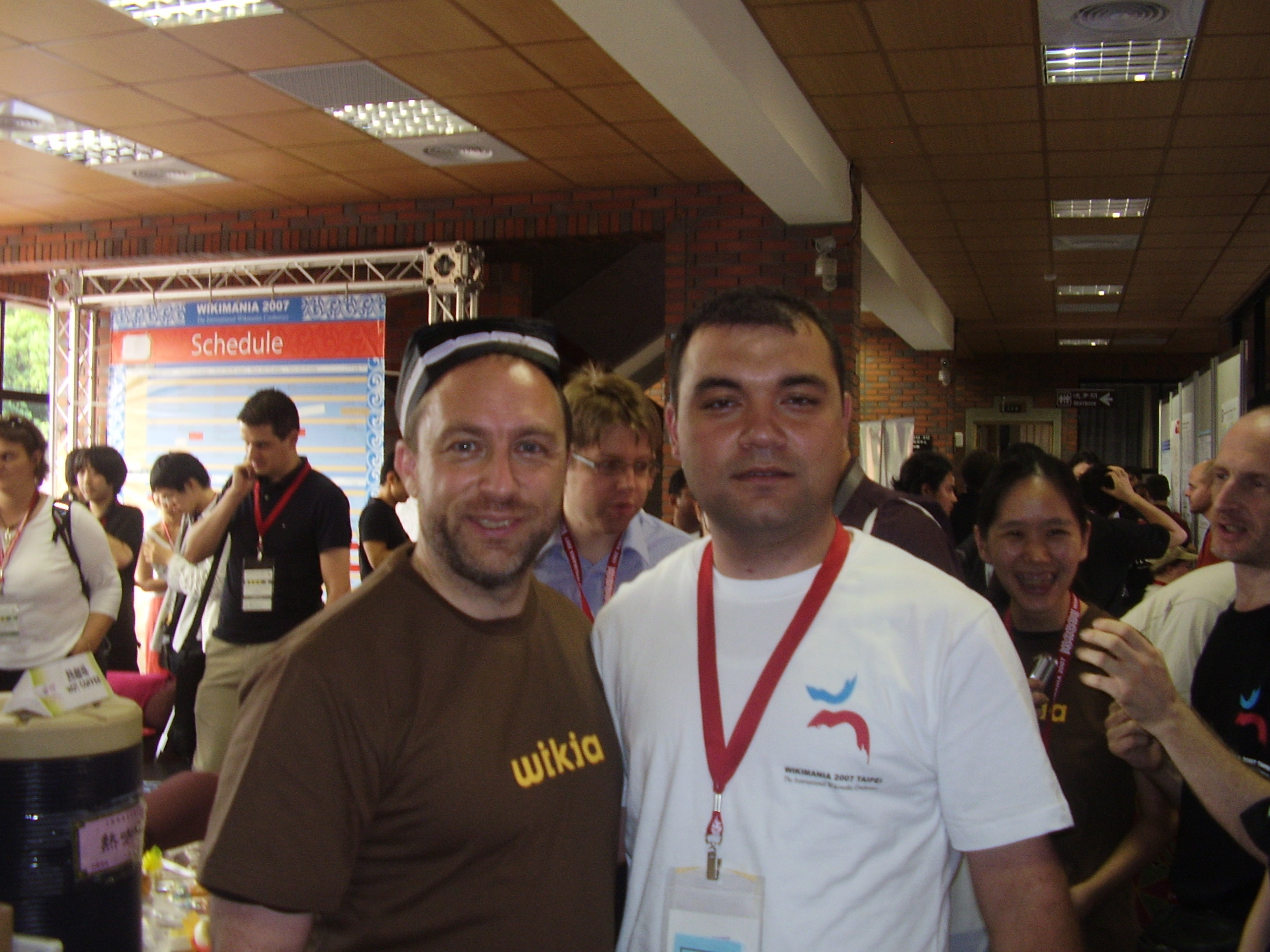 Jimbo Wales with Tajik tuppi hat and Ibrahimdjon Rustamov from Tajikstan